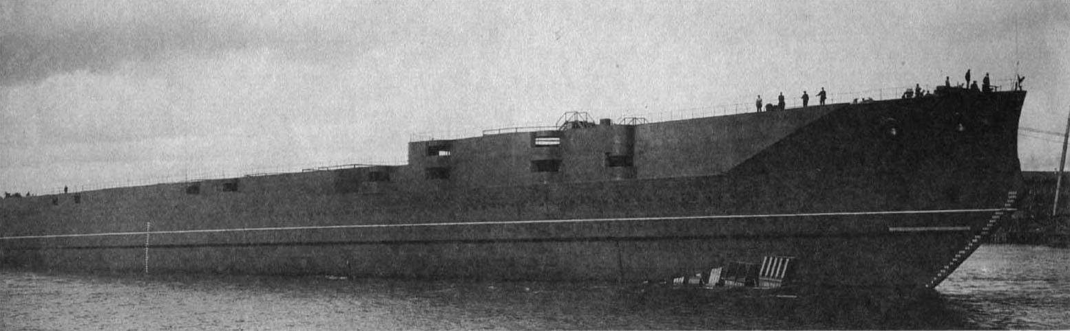 Battlecruiser Borodino at New Admiralty in Petrograd.